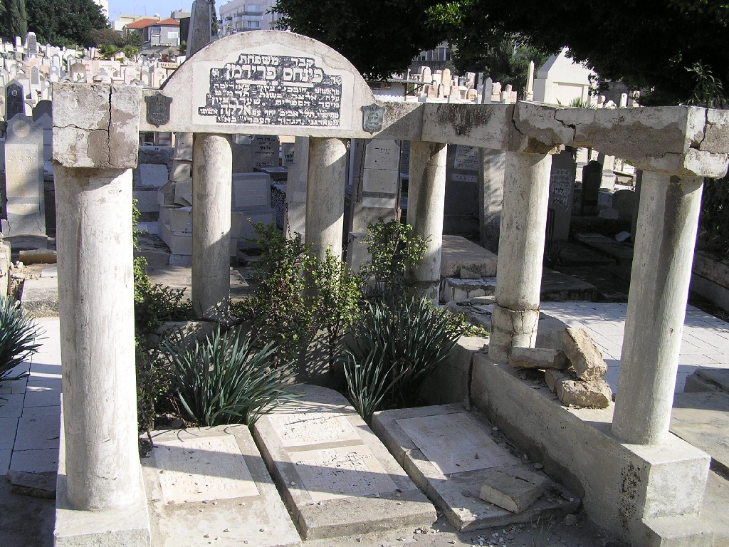 Tomb of Pinhas Friedmann in Trumpeldor cemetery in Tel Aviv photographed by Eman, February 2006